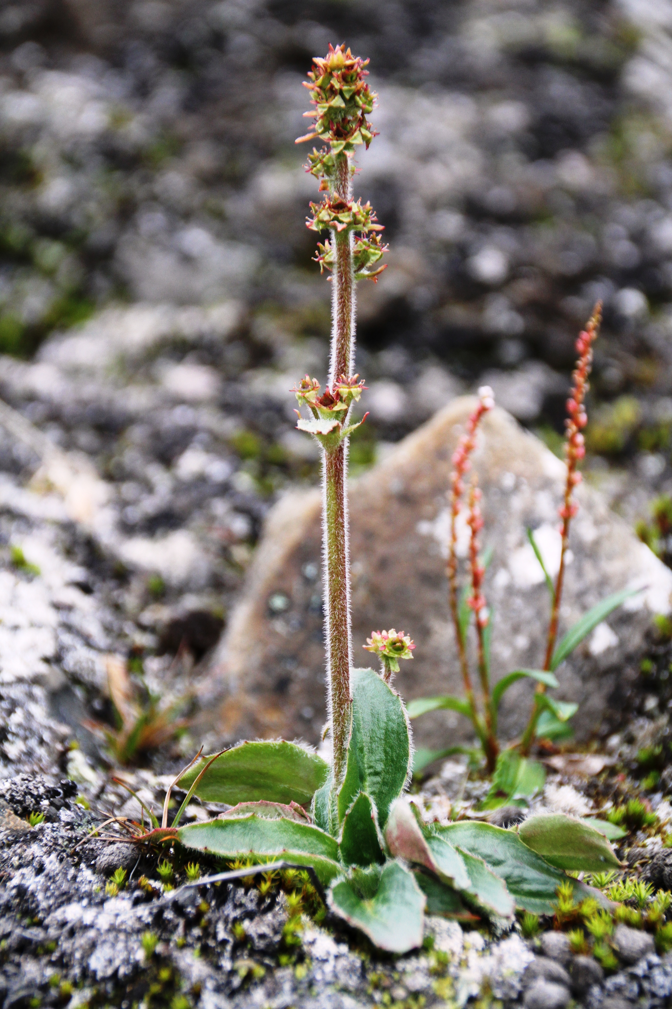 Saxifrage flowers observed at island of Spitsbergen, Svalbard (Norway). August,, 2012.